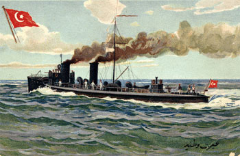 The Ottoman destroyer Gayret-i Vataniye (One of the postcards which was published by the Association for the Ottoman Navy).